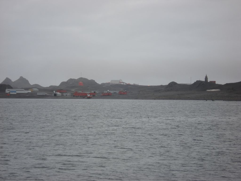 Russian Bellingshausen Station in King George Island in Antarctica.